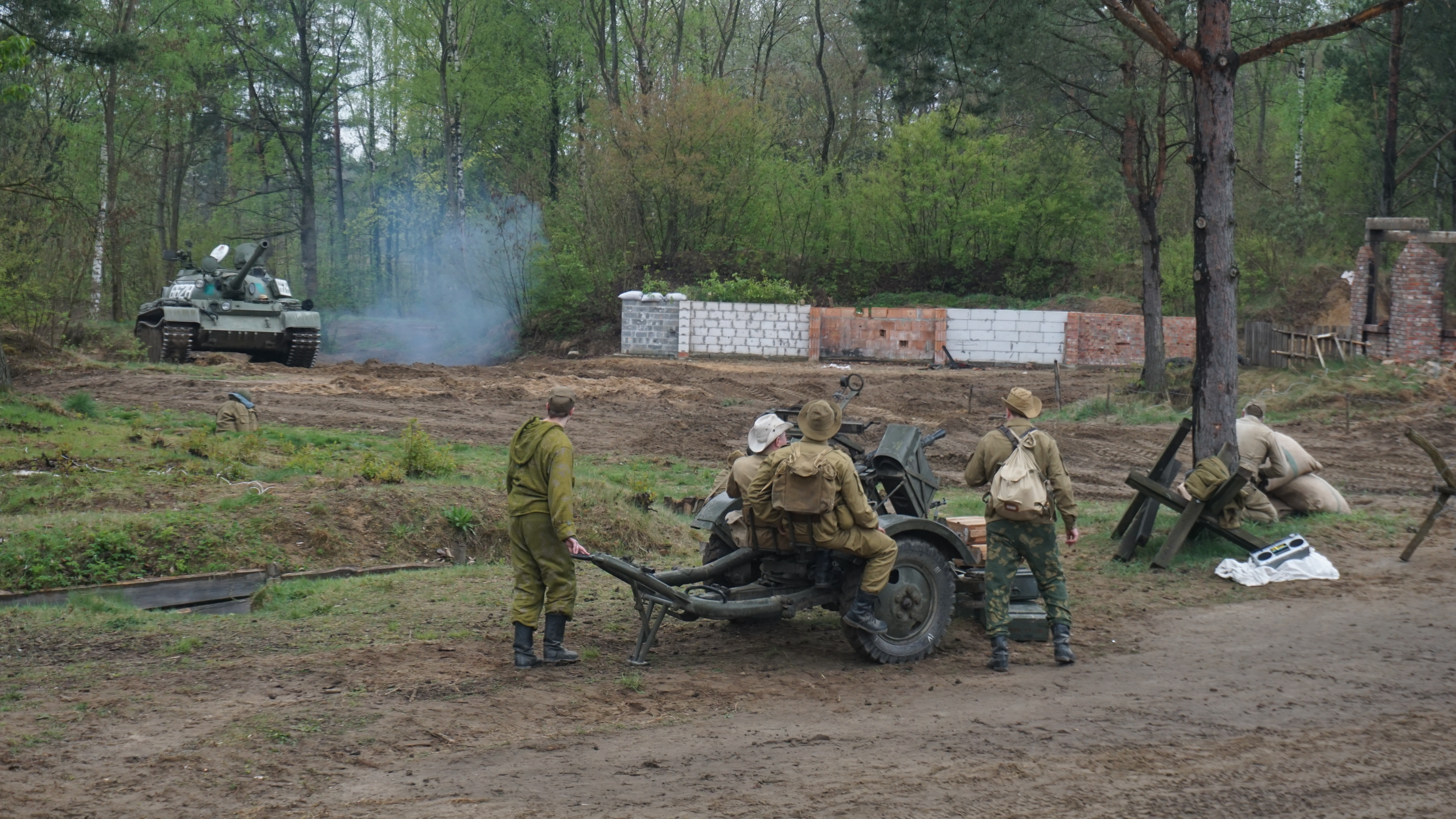 Reconstruction of "Afghanistan 1988" in Museum of Military Technology Gryf - Soviet control point